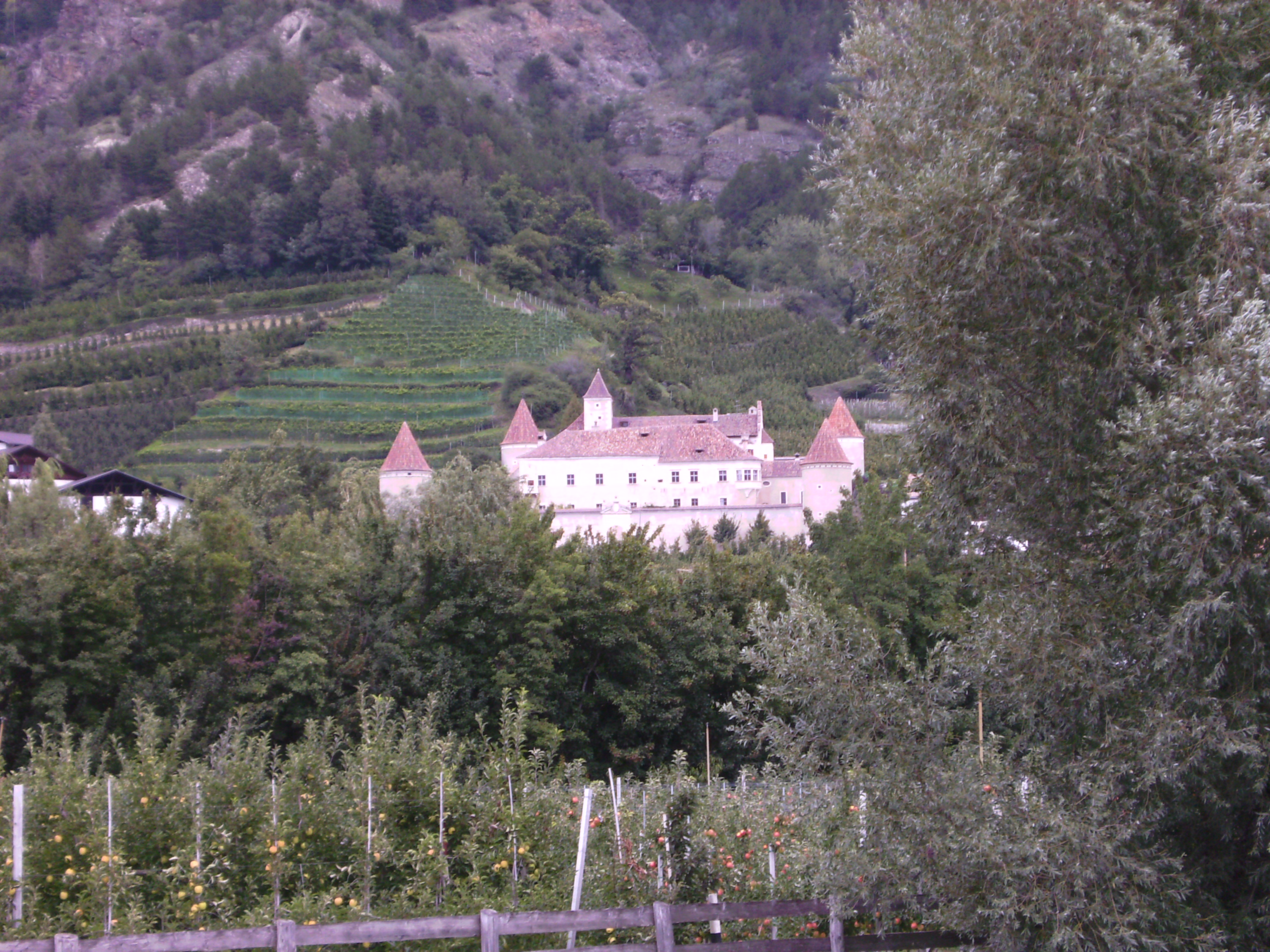 Goldrain Castle